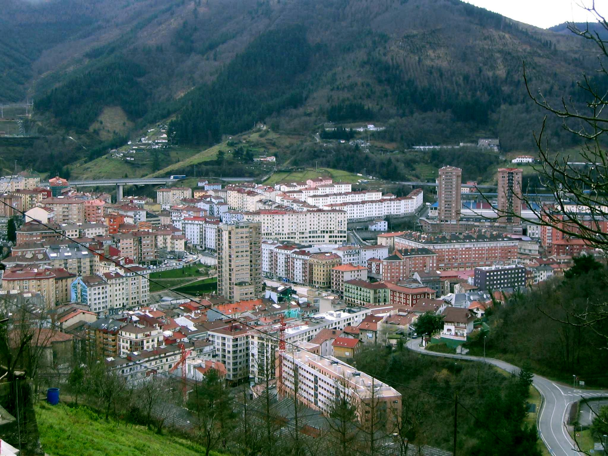 Eibar (Guipuscoa, Basque Country)